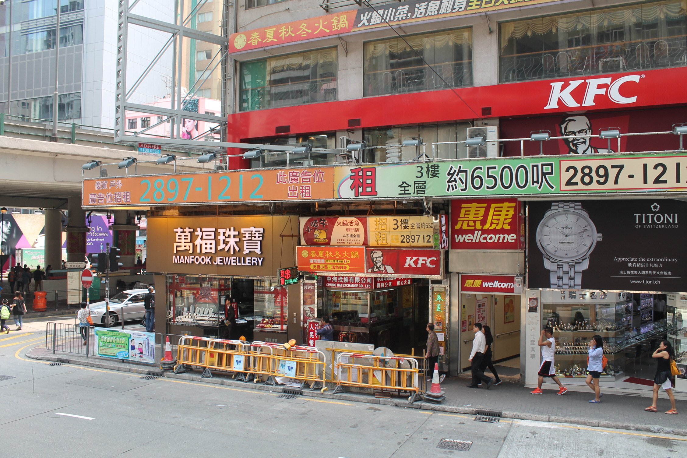 KFC, along with various other stores on Hong Kong Island.